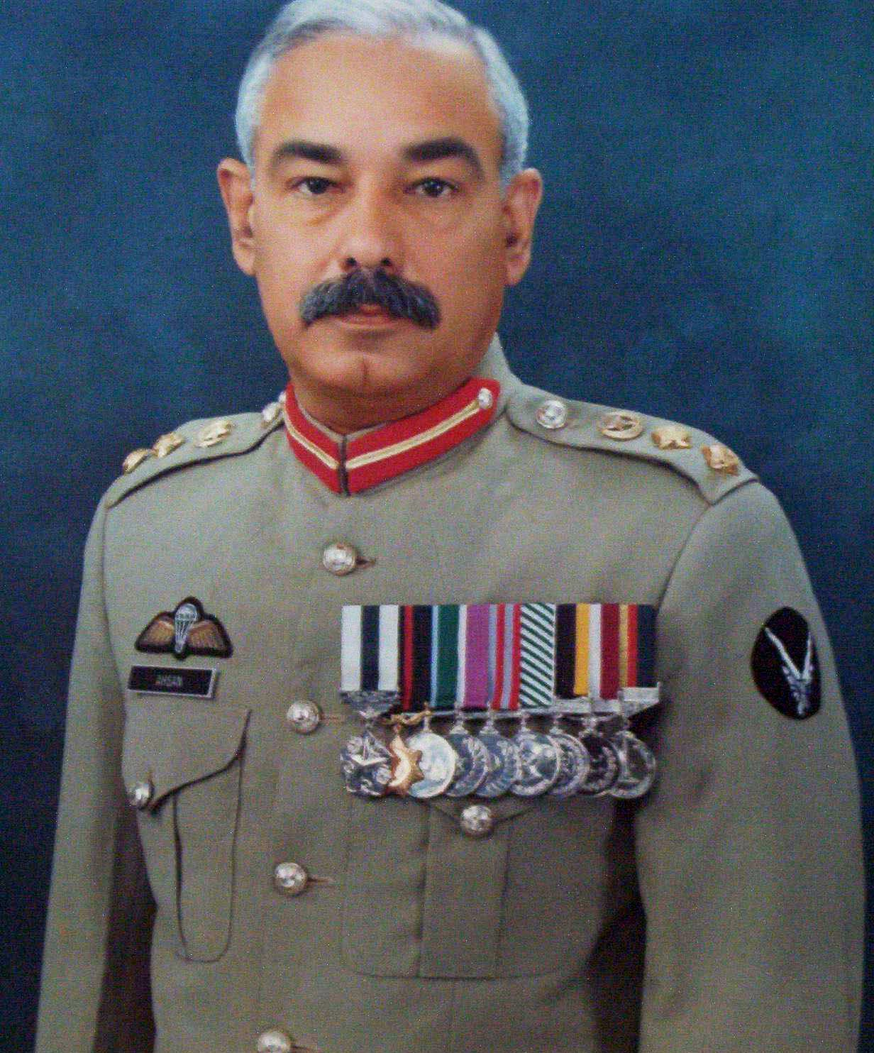 This is a Picture of a person